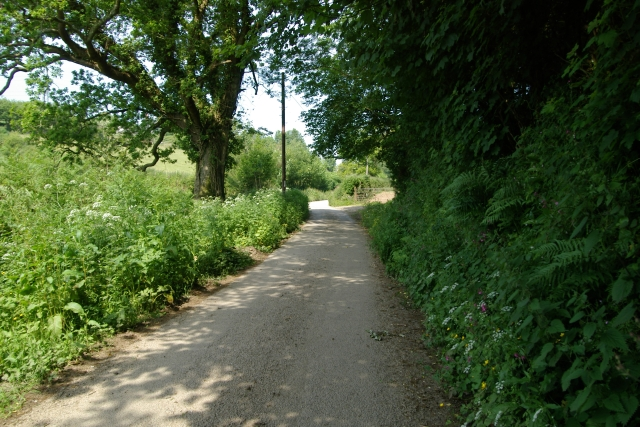 Road near Hay Lake Mill. Stretch of road near Hay Lake Mill, Tilland, south east Cornwall.